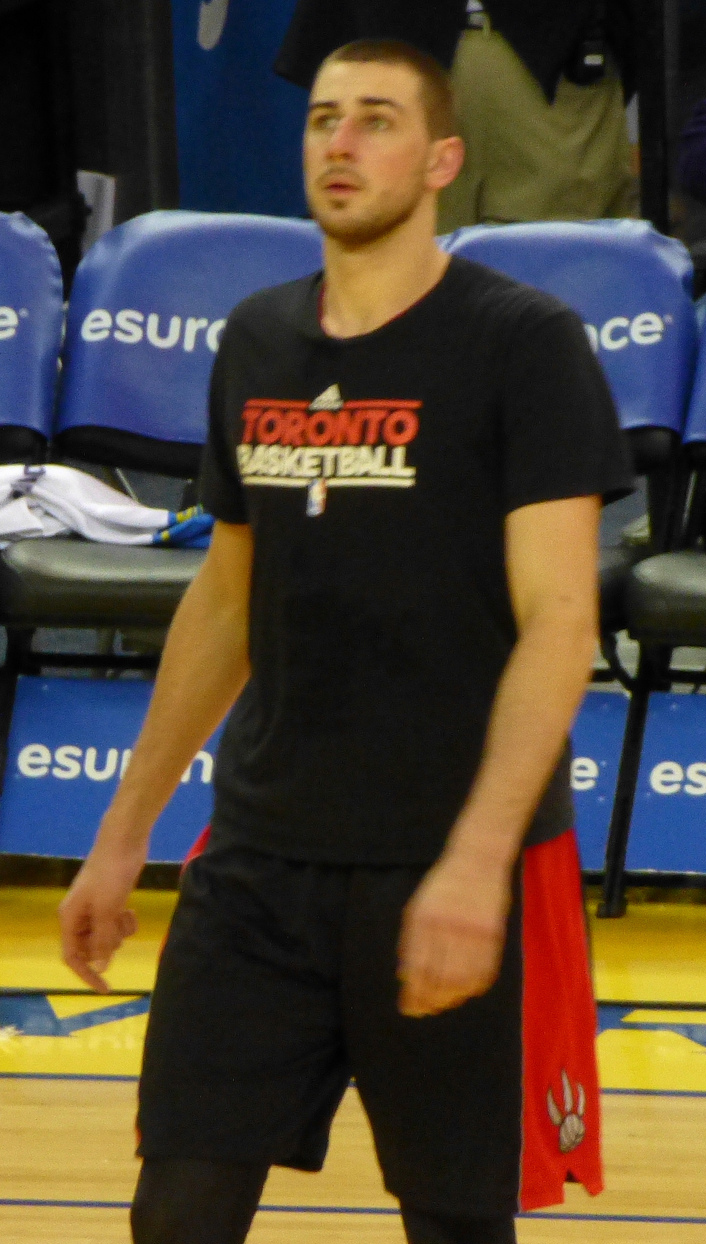 Jonas Valančiūnas, Toronto Raptors at Golden State Warriors March 4, 2013